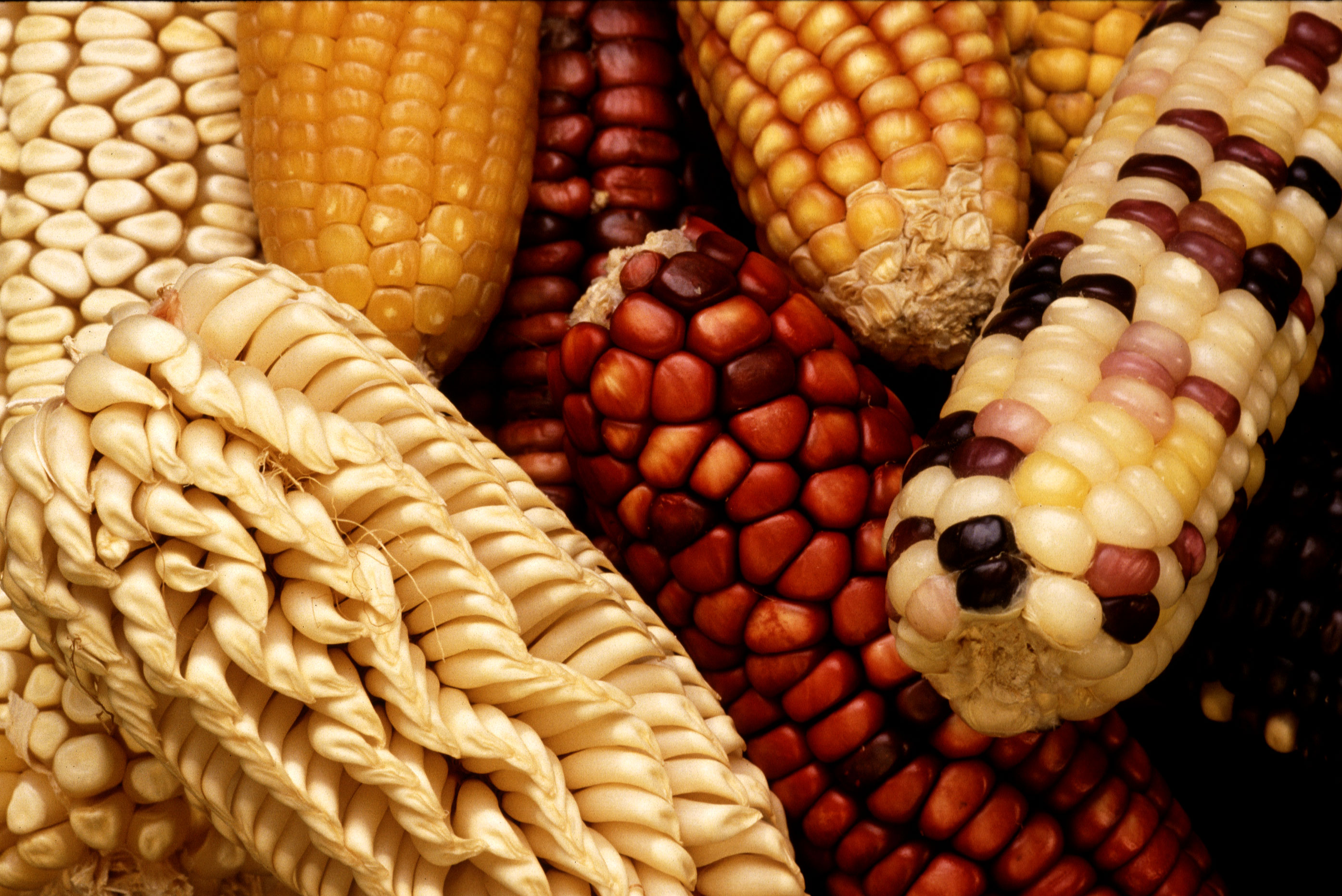 To increase the genetic diversity of U.S. corn, the Germplasm Enhancement for Maize (GEM) project seeks to combine exotic germplasm, such as this unusually colored and shaped maize from Latin America, with domestic corn lines.